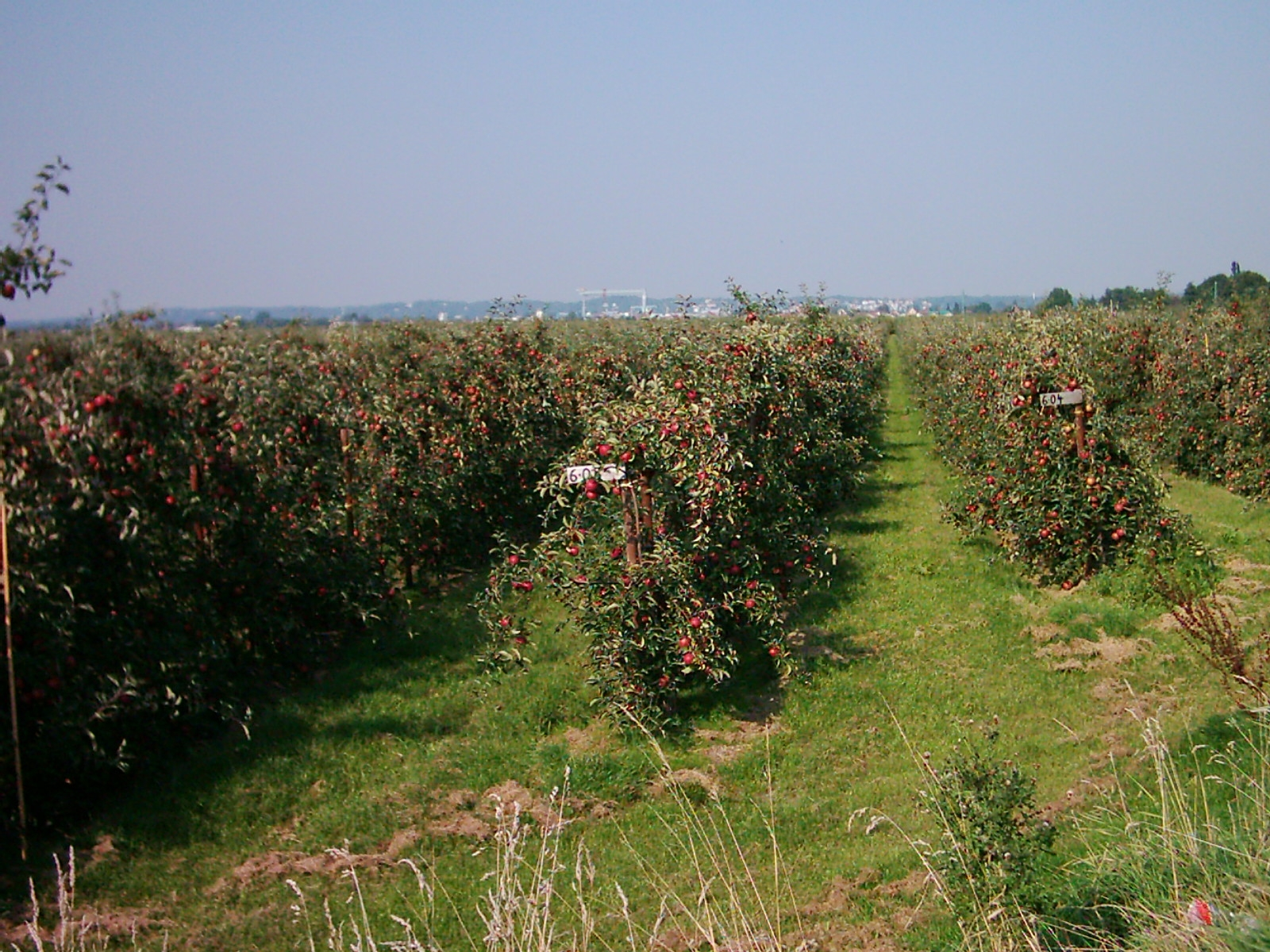 Cultivation of apples in Altes Land near Hamburg, Germany.